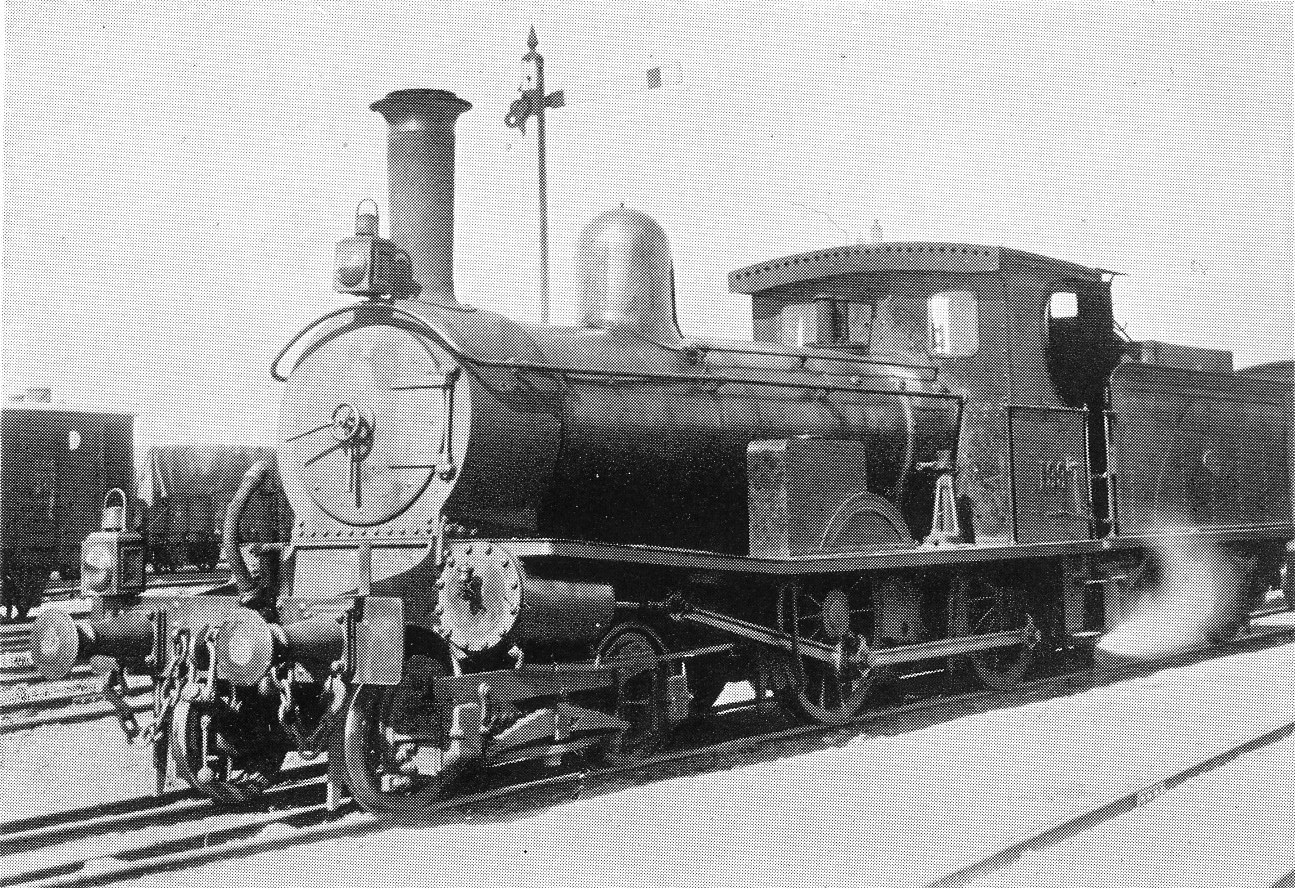 Japan Government Railway type 5500 steam locomotive